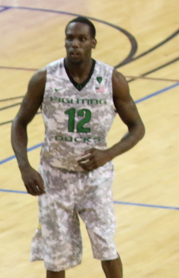 ESPN Armed Forces Classic NCAA Men's Basketball - U.S. Army Garrison Humphreys, South Korea - 9 Nov. 2013 photo by Richard Kim